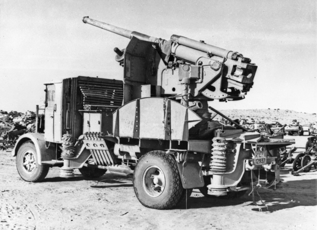 AWM photo caption: 1943-02-09. EIGHTH ARMY'S ADVANCE. AN ITALIAN 90/53 90MM GUN ON A TRUCK MOUNTING JOINING THE ROWS OF DERELICT AXIS VEHICLES AND EQUIPMENT JETTISONED BY ROMMEL'S ARMY.